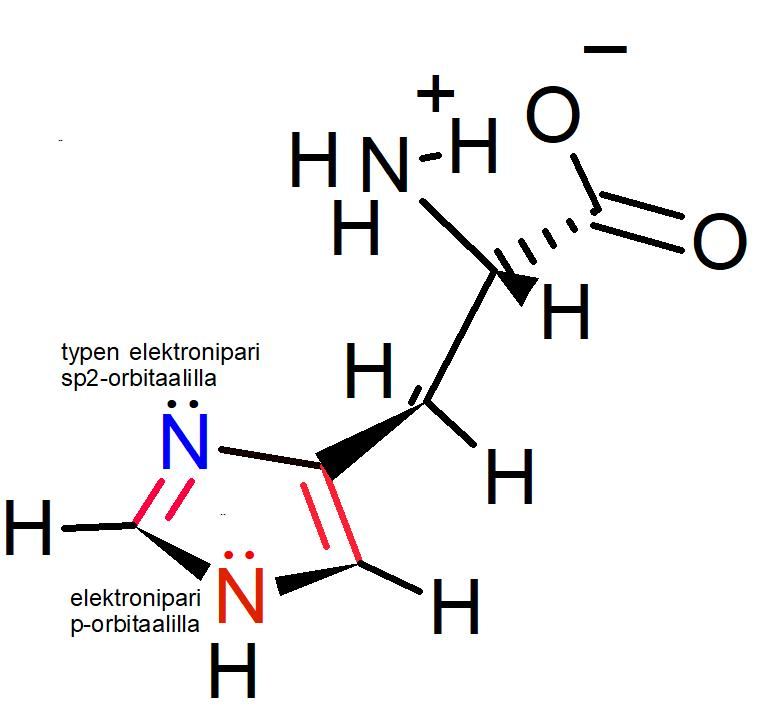 The side chain of histidine is aromatic, because the ring atoms have a total of 3 pairs of p-orbital electrons in addition to being planar (also every atom of the ring is sp2-hybridized); the third pair (in addition to 2 pairs, which are half of the two double bonds' electrons) comes from the RED-depicted sp2-hybridized nitrogen that has its free electron pair in its p-orbital. The BLUE-depicted nitrogen, on the other hand, has its electron pair on its sp2-orbital because its p-orbital is already used for double-bonding, which cannot hybridize with the adjacent p-orbitals to form the ring-encompassing pi-elctron cloud reguired for a compound to be aromatic. Finnish texts: "the electron pair of nitrogen on a sp2-orbital" above and "the electron pair of nitrogen on a p-orbital" below. Red color corresponds to aromaticity-contributing bonds/atoms/electron pair on nitrogen.